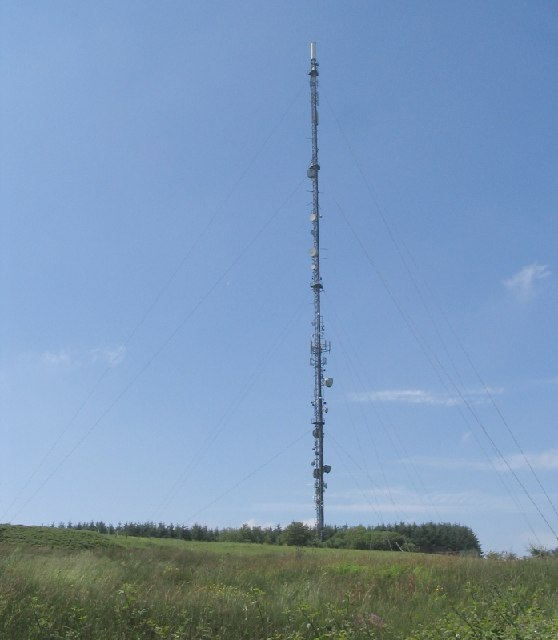 Carmel Transmitter. This TV mast is a landmark that can be seen for miles around in all directions.